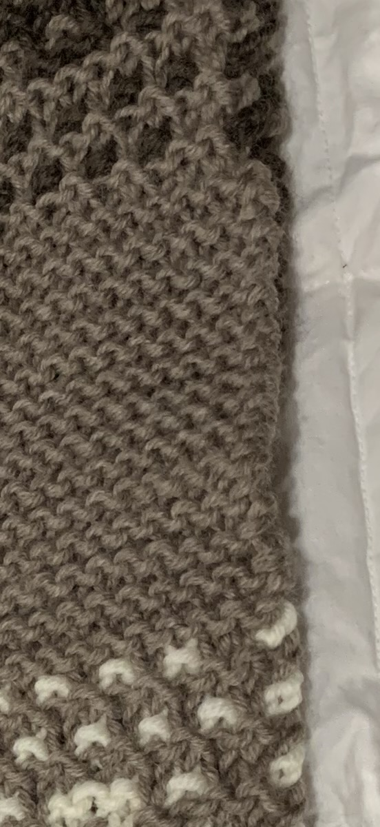 This cowl was knit using alternating panels of garter stitch and mosaic knitting. The cowl has been blocked and loose ends have been woven in.